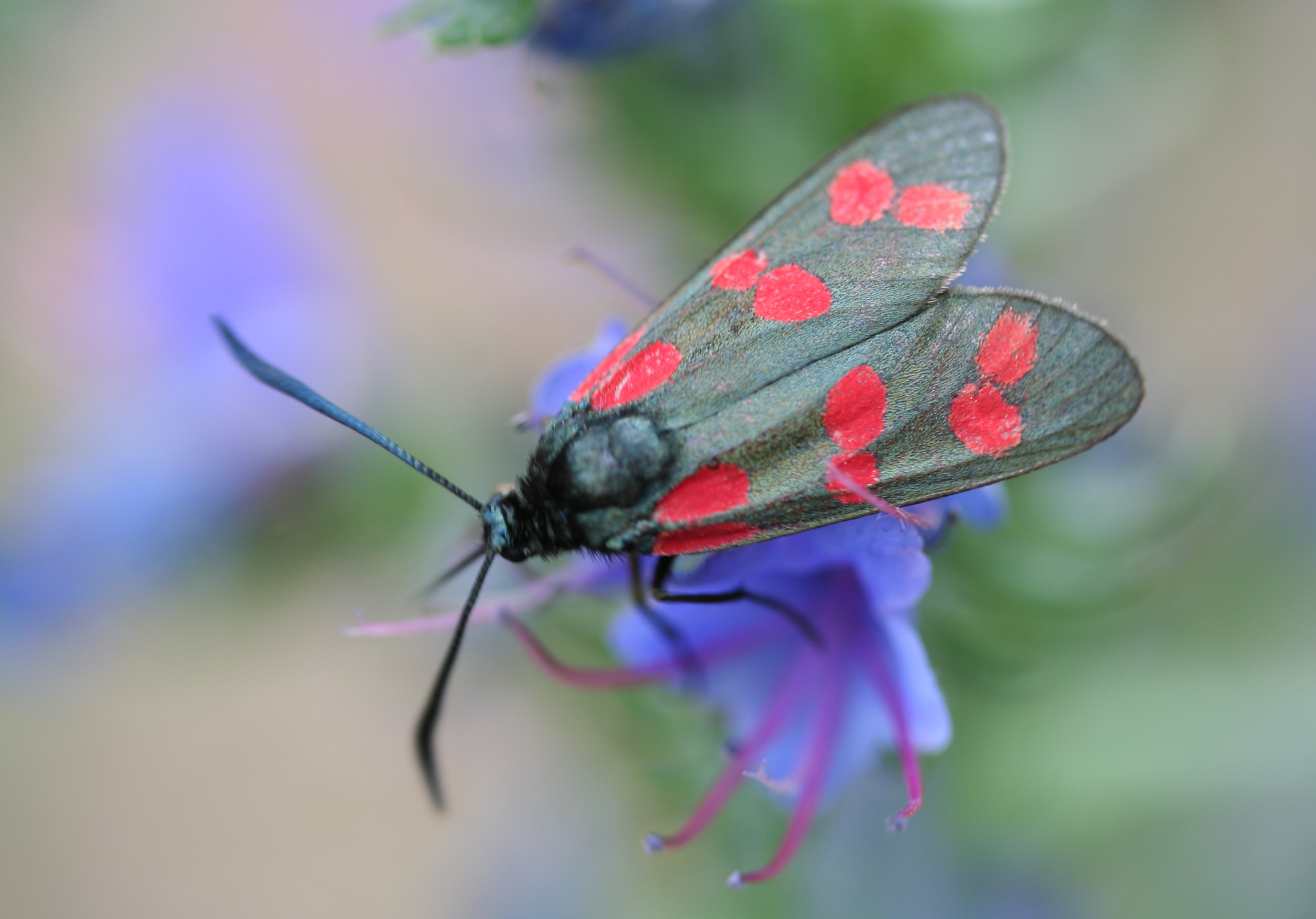 Zygaena filipendulae 10 July 2006 IJmuiden, the Netherlands